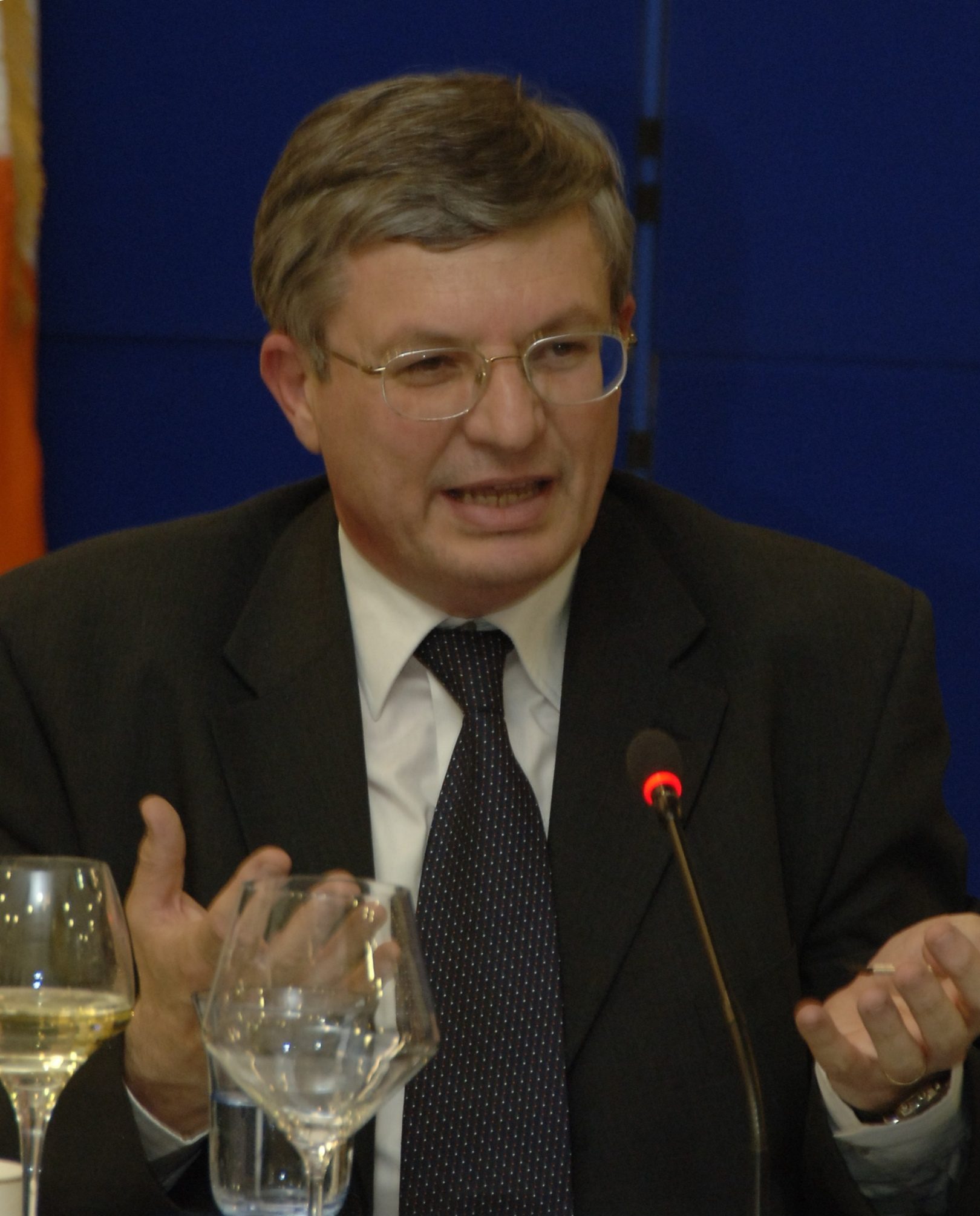 EPP LEADERS MEET IN DUBLIN 14 April 2008 - Tonio Borg